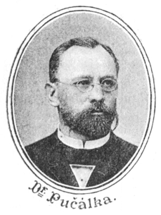 Portrait of Štěpán Pučálka (1845-1914), Czech physician and local politician in Blovice. Cropped from a gallery of founders of a Czech Medical Student Association.